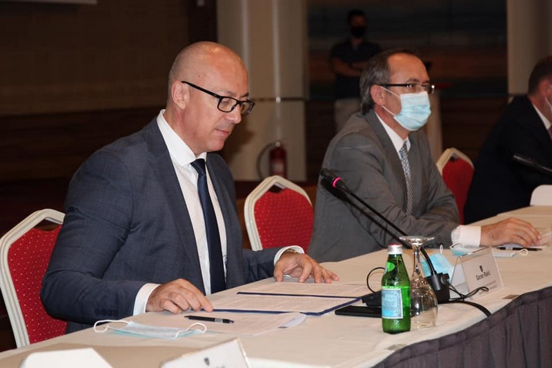 Rakić and the Prime Minister of Kosovo, Avdullah Hoti